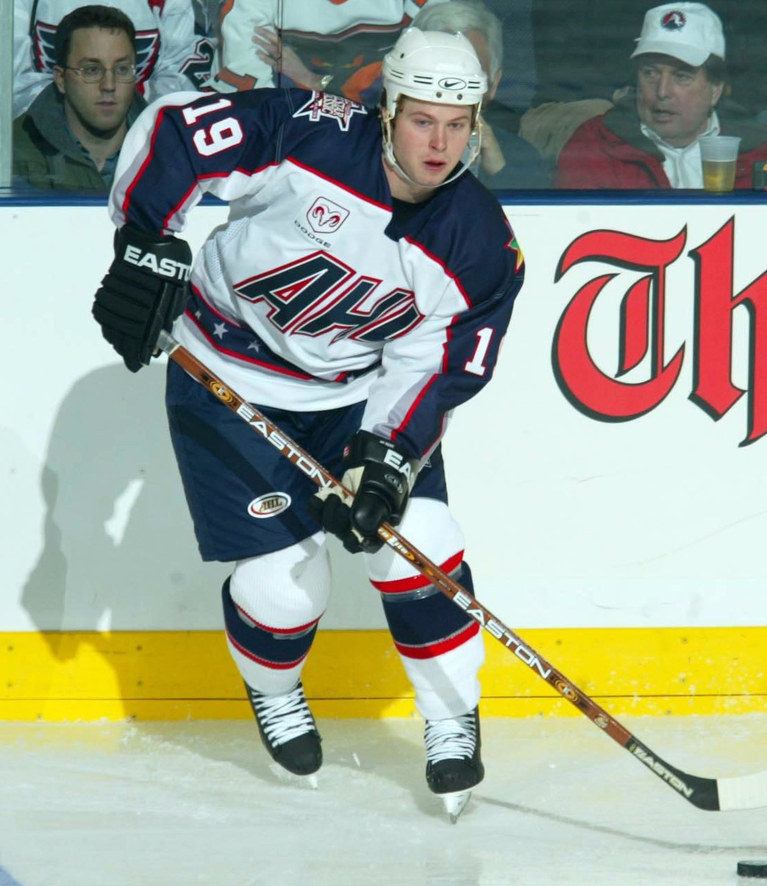 Photo: Jason Pulver/AHL